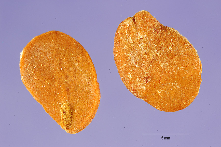 Seeds of Spondias dulcis